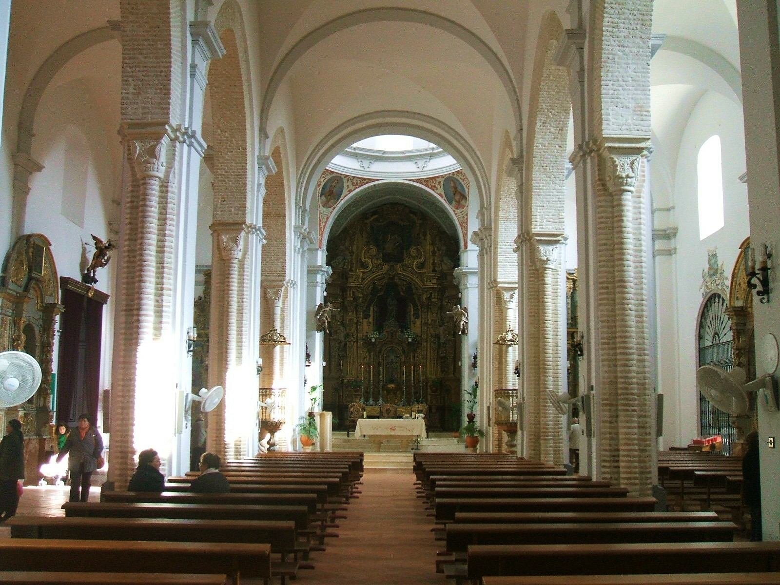 Iglesia de San Gil, Écija, Sevilla, Andalucía, España